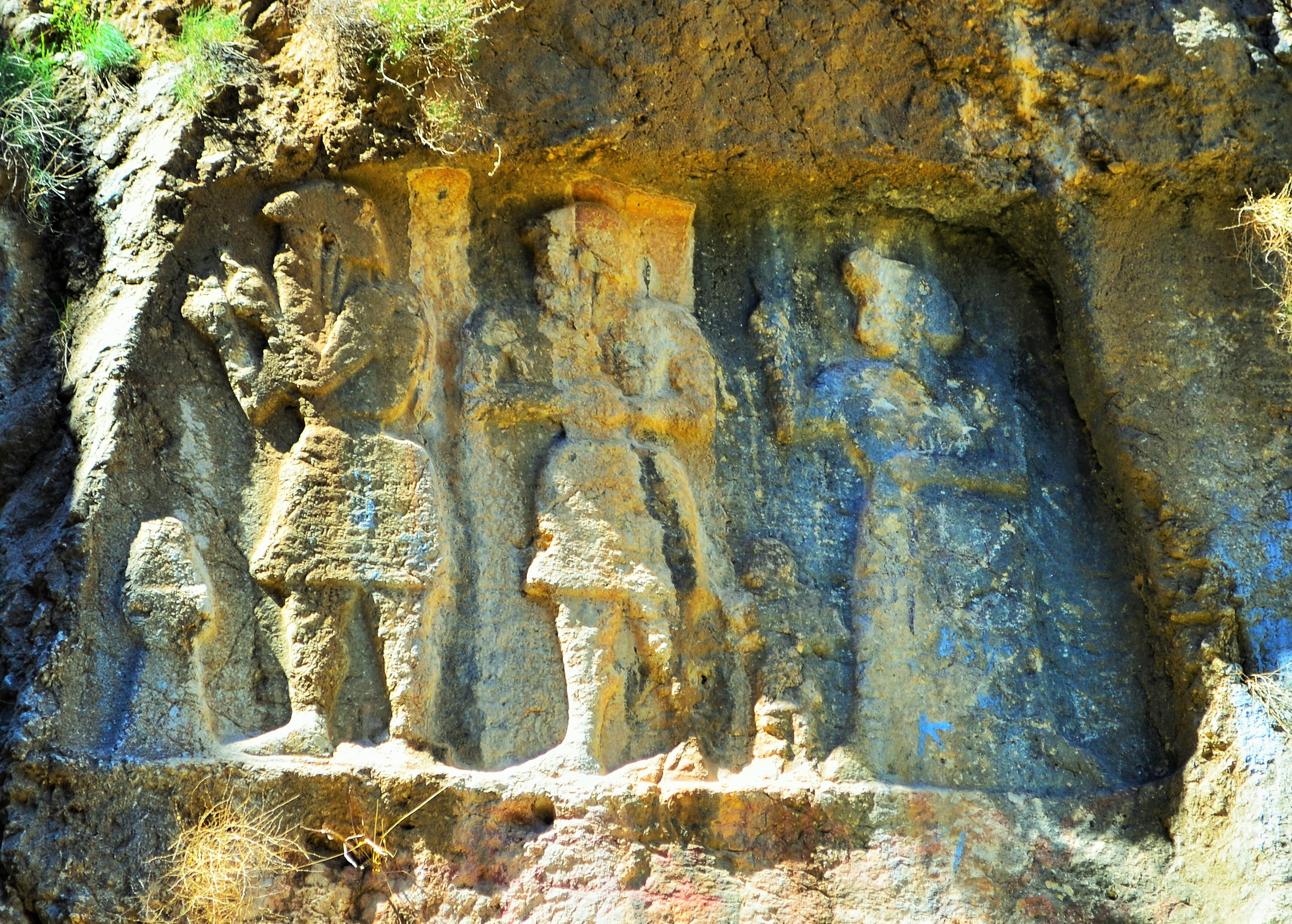 View of Shekaft-e Salman I